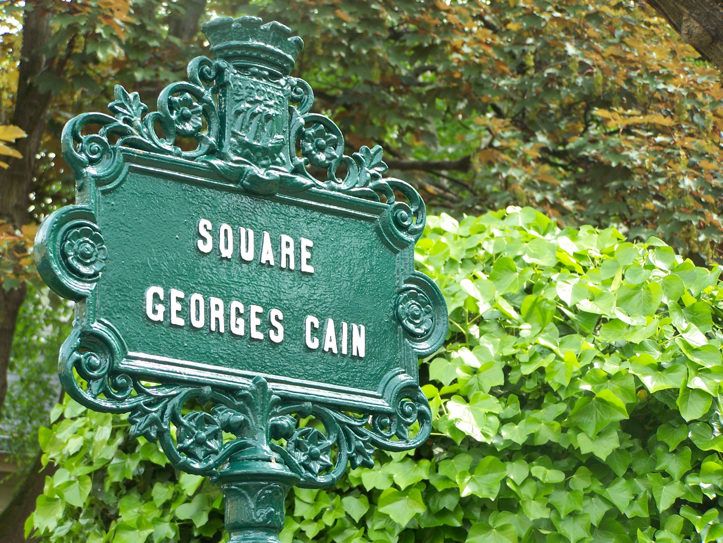 Square Georges-Cain. Sign